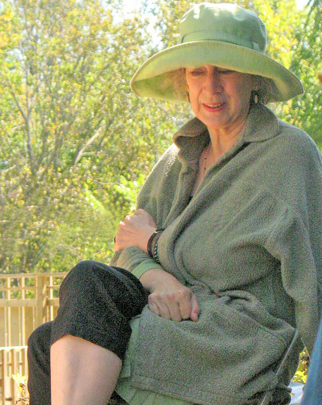 Author Margaret Atwood attends a reading at Eden Mills Writers' Festival, Ontario, Canada in September 2006.